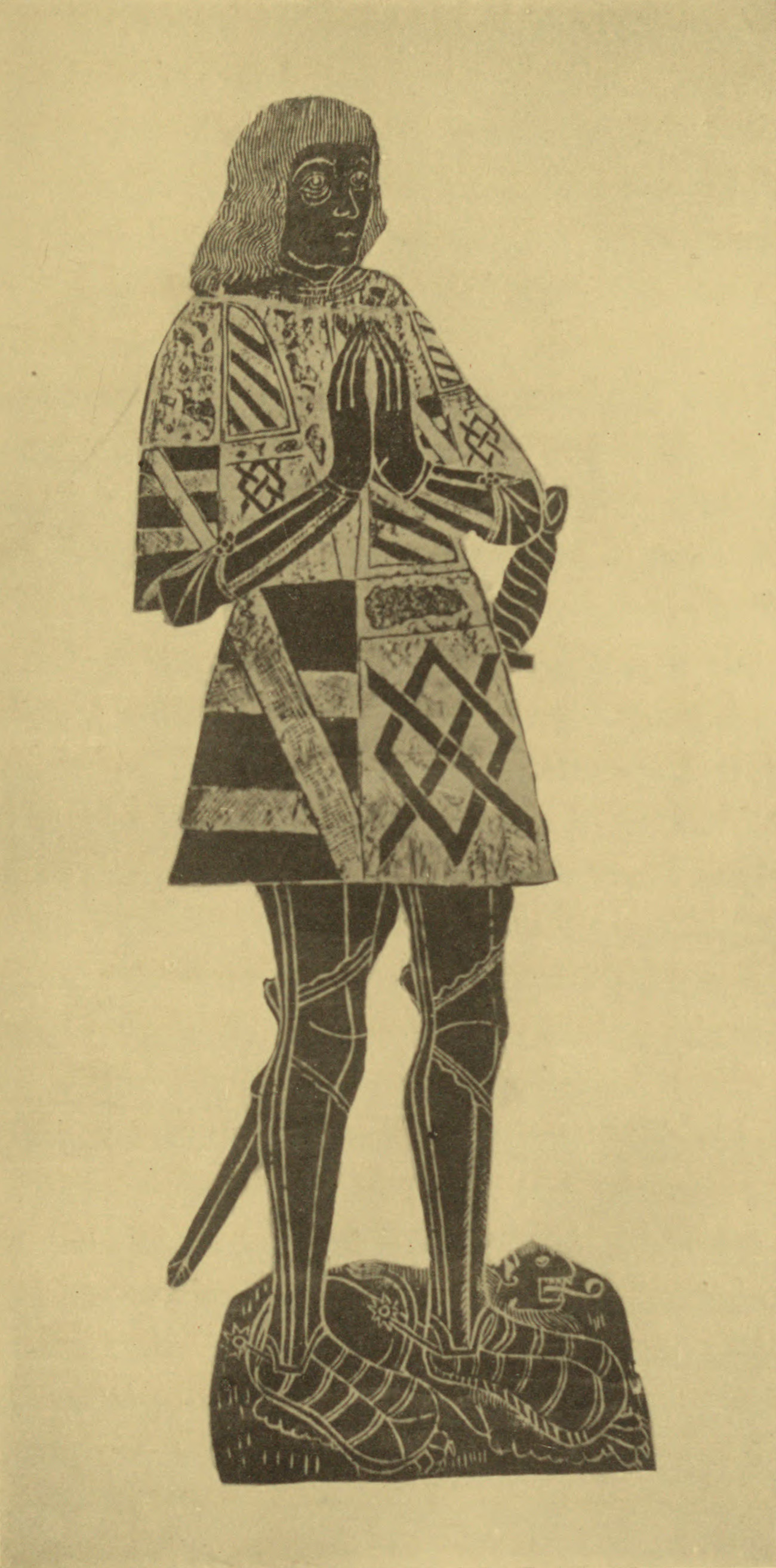 Memorial brass of Sir William Catesby (1450-1485) at Ashby St Ledgers, Northamptonshire. He was one of King Richard III's principal councillors. He also served as Chancellor of the Exchequer and Speaker of the House of Commons. On his tabard he displays quarterly of four (repeated on breast and on both arms): 1: Catesby 2: Montfort, lord of Beldesert & of Lapworth (a Catesby heiress) 3: Brandeston of Brandeston, Leics & of Lapworth (a Mountford heiress) 4: Cranford of Ashby St Ledgers (a Catesby heiress) (Source: Heraldic Visitation of Warwickshire, pp.124-131 (Fetherston, J., ed. (1877). The Visitation of the County of Warwick in the year 1619, taken by William Camden, Clarencieux King of Arms. Harleian Society, 1st ser. 12. London[1]). For blazons see